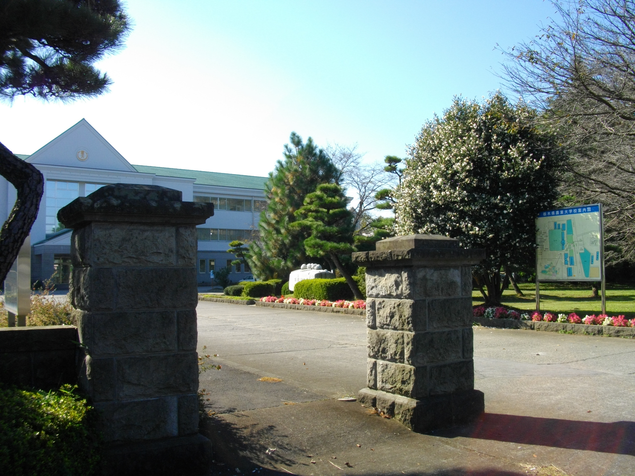 Tochigi Prefecture Agricultural College